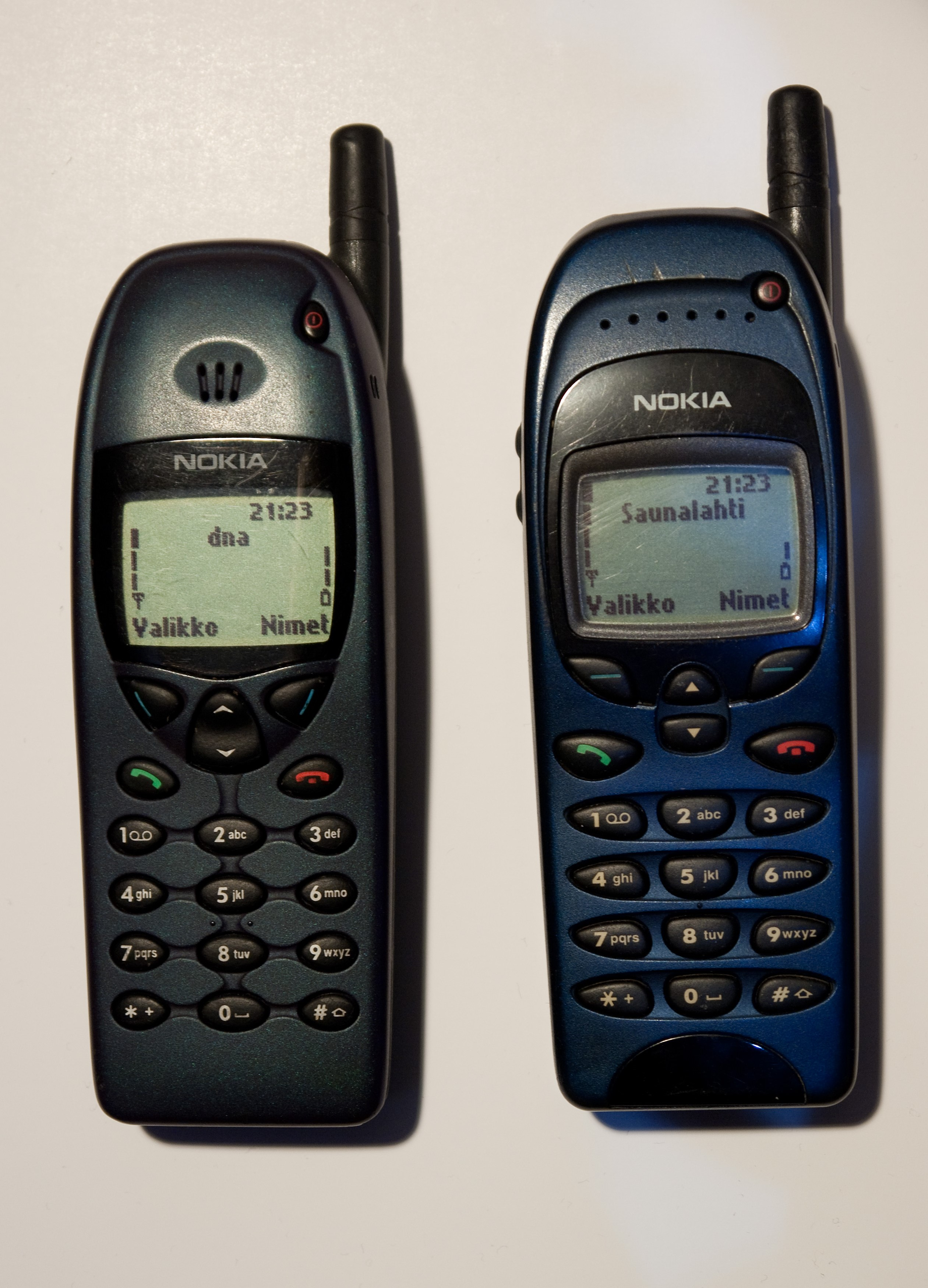 Nokia 6110 (left) and Nokia 6150 (right).